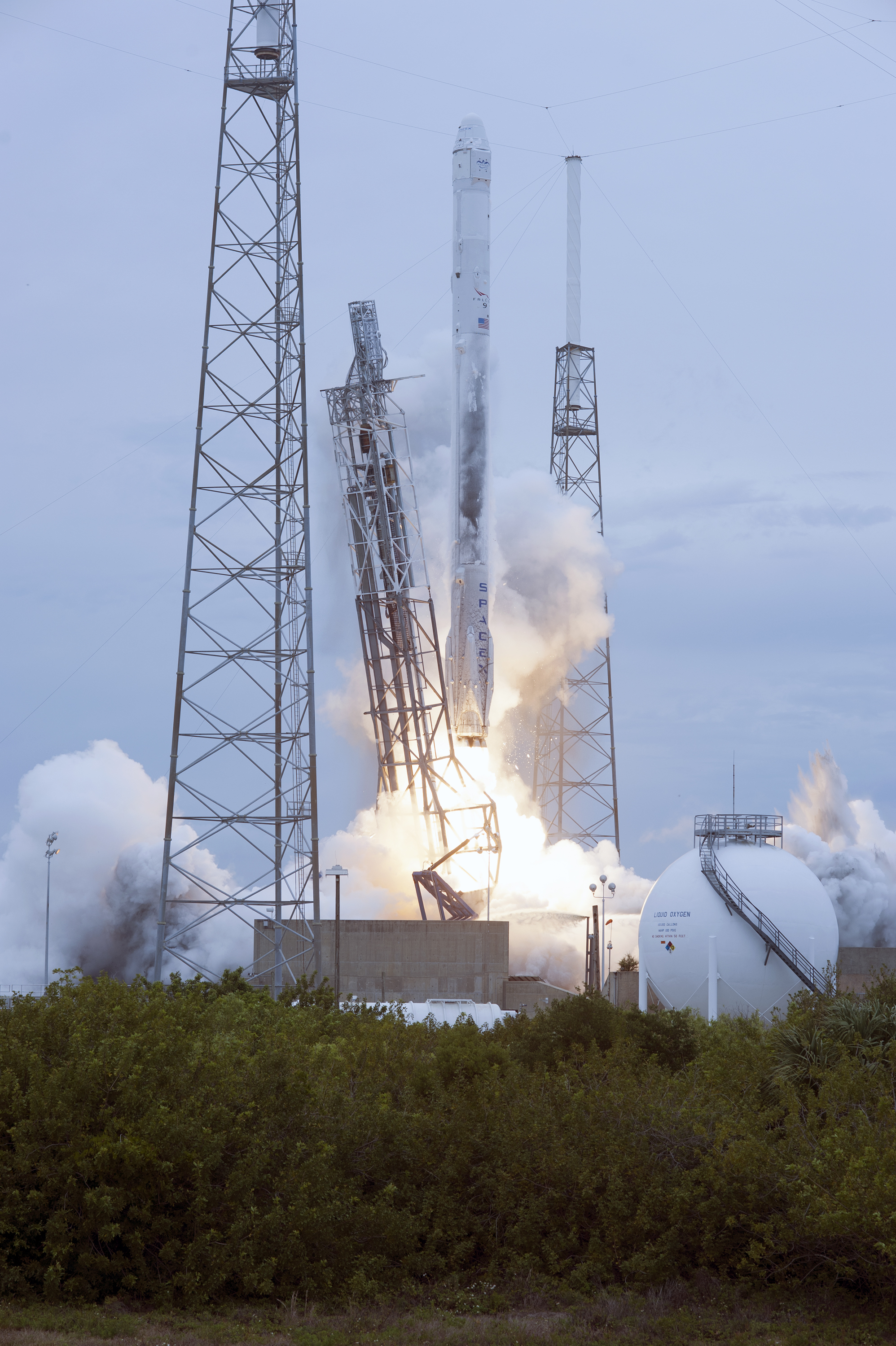 CAPE CANAVERAL, Fla. - Nine Merlin engines ignite under the first-stage of the SpaceX Falcon 9 rocket at Space Launch Complex 40 on Cape Canaveral Air Force Station in Florida, starting the Dragon resupply capsule on its way to the International Space Station on the SpaceX-3 mission. Launch was during an instantaneous window at 3:25 p.m. EDT. Dragon is making its fourth trip to the space station. The SpaceX-3 mission, carrying almost 2.5 tons of supplies, technology and science experiments, is the third of 12 flights through a $1.6 billion NASA Commercial Resupply Services contract. Dragon's cargo will support more than 150 experiments that will be conducted during the station's Expeditions 39 and 40.